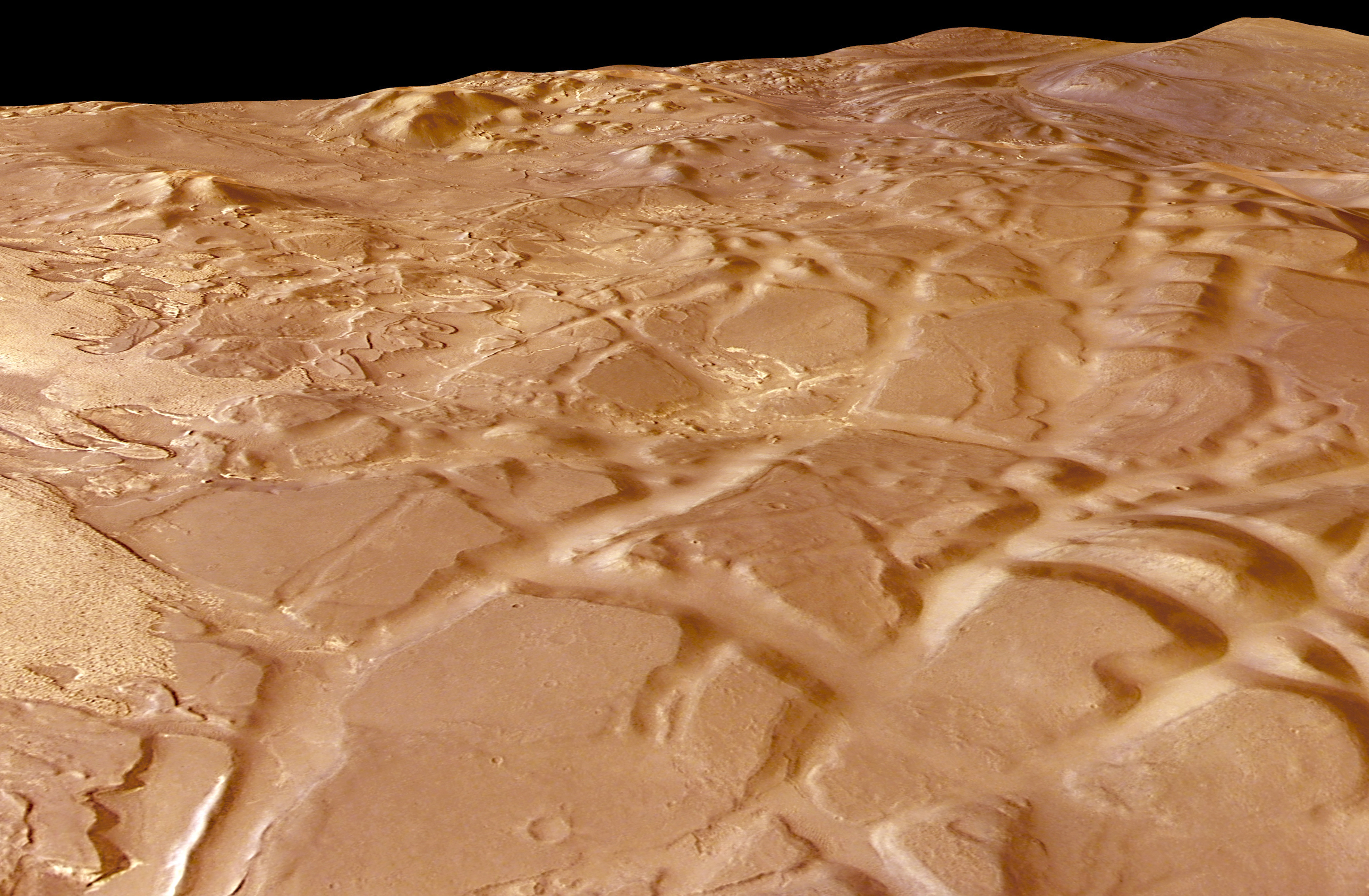 Computer-generated perspective view of a part of Aram Chaos on Mars based on data from Mars Express.